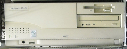 Computer NEC pc-9821 Ra40